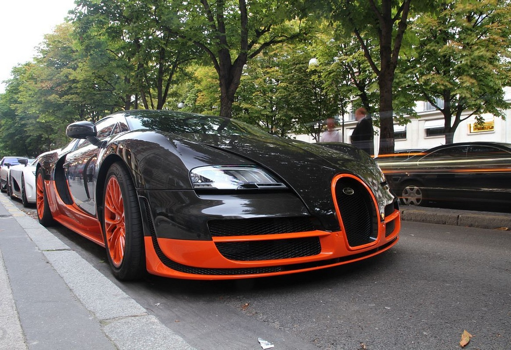 For More Photo's Check